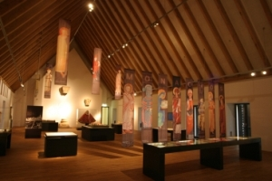 The permanent exhibition of the Dalheim Monastery Foundation. LWL-State museum of monastery culture provides an insight into 1.700-year-old history of monastery culture.